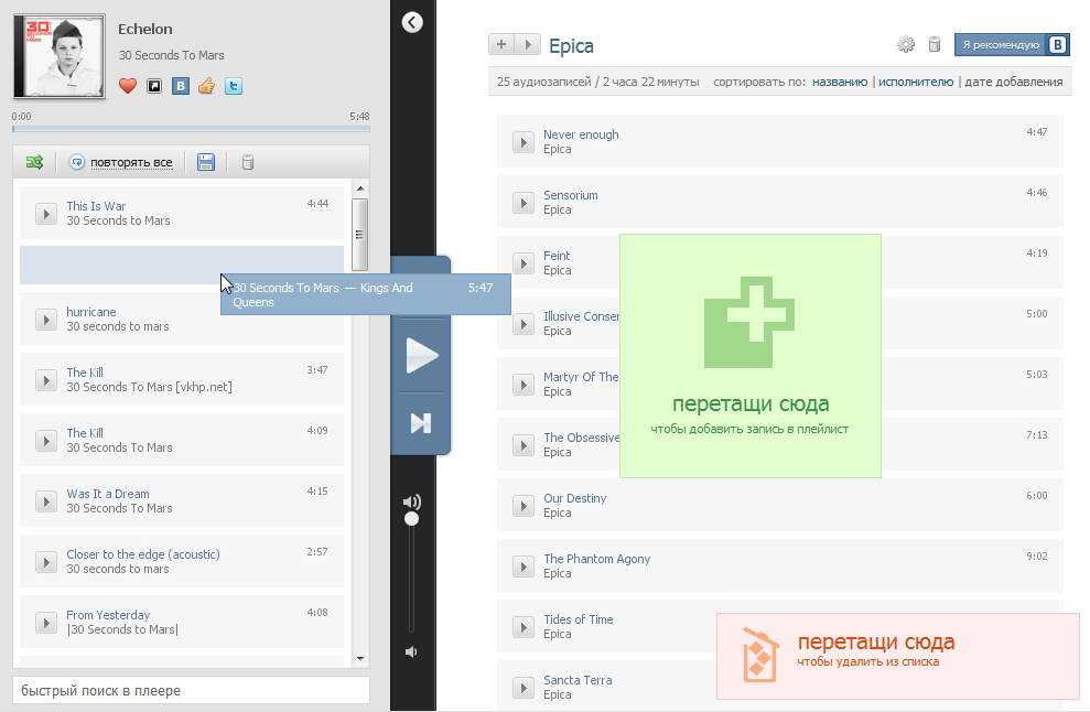 Drag And Drop